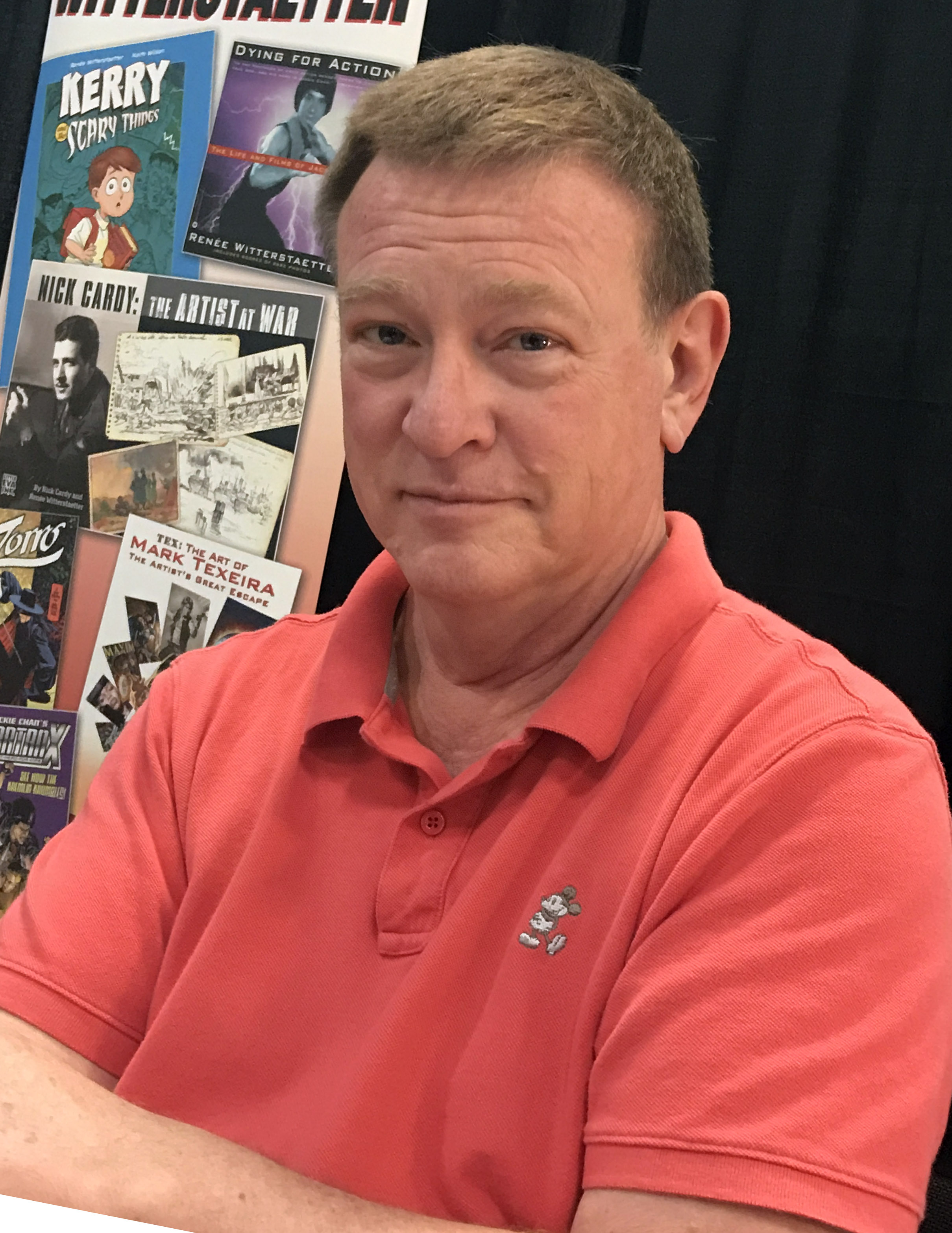 Comic book creator Michael Golden at the Meadowlands Exposition Center in Secaucus, New Jersey on Sunday, April 29, 2018, Day 3 of the East Coast Comicon. This photo was created by Luigi Novi. It is not in the public domain, and use of this file outside of the licensing terms is a copyright violation.